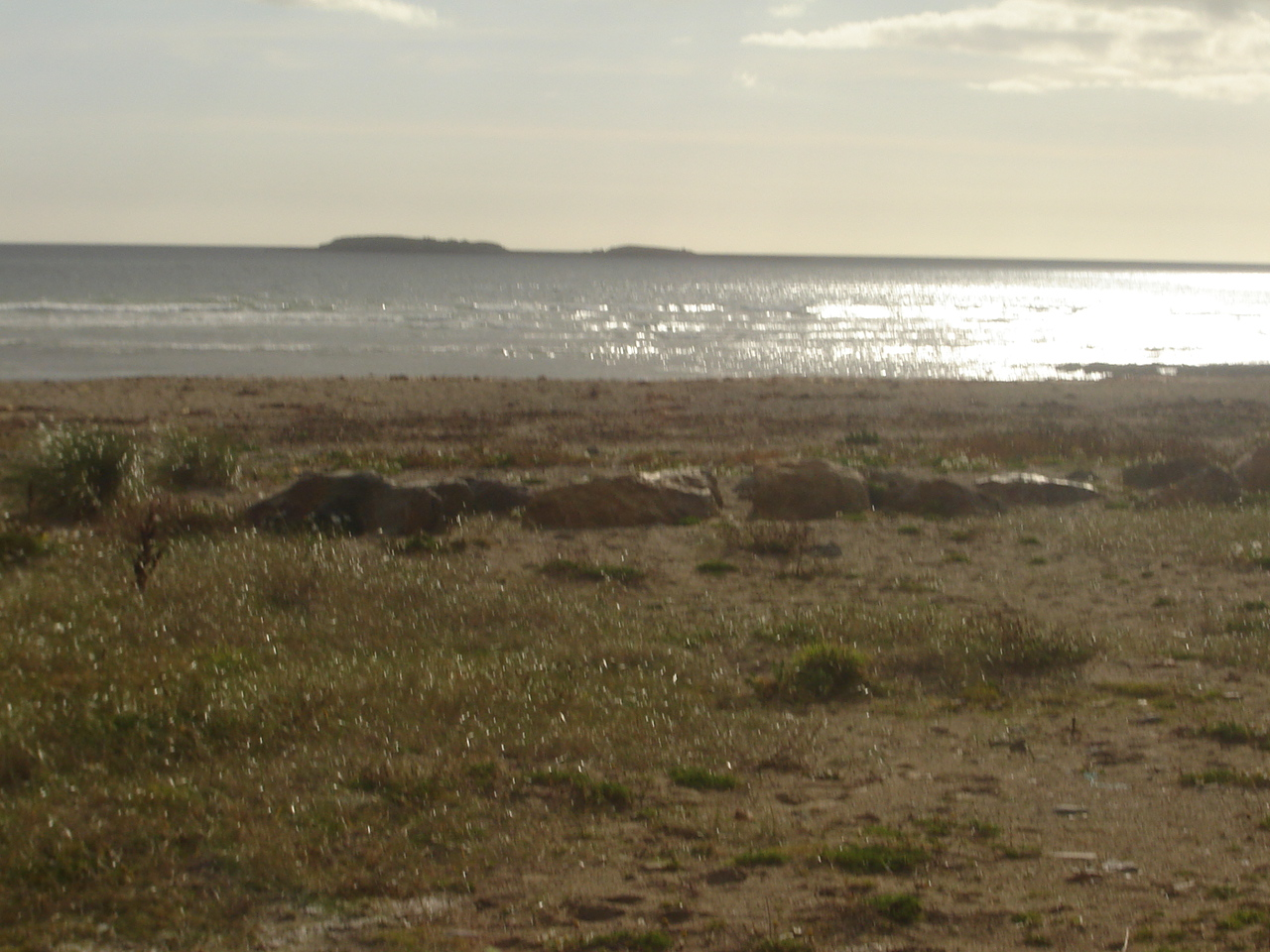 Cullenstown Beach, Co.Wexford, Ireland. With Keeragh Islands in background